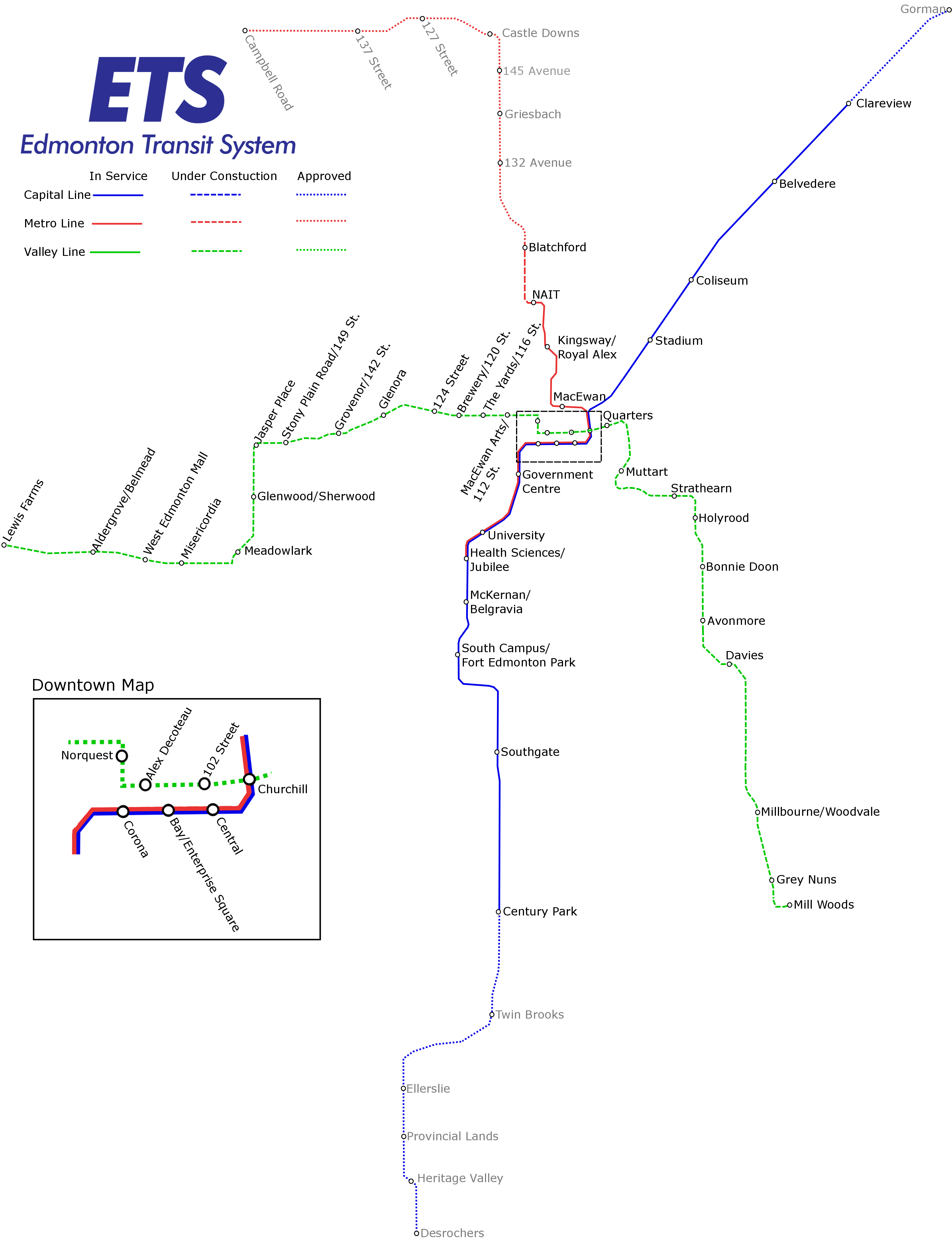 A map of current, future and approved lines of the Edmonton LRT.